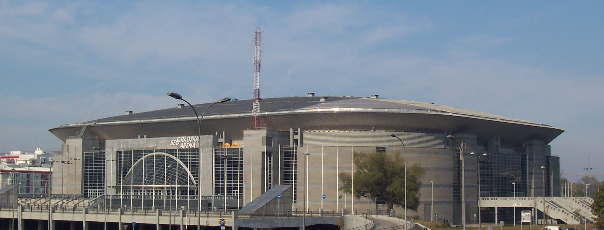 Belgrade Arena view from south-east